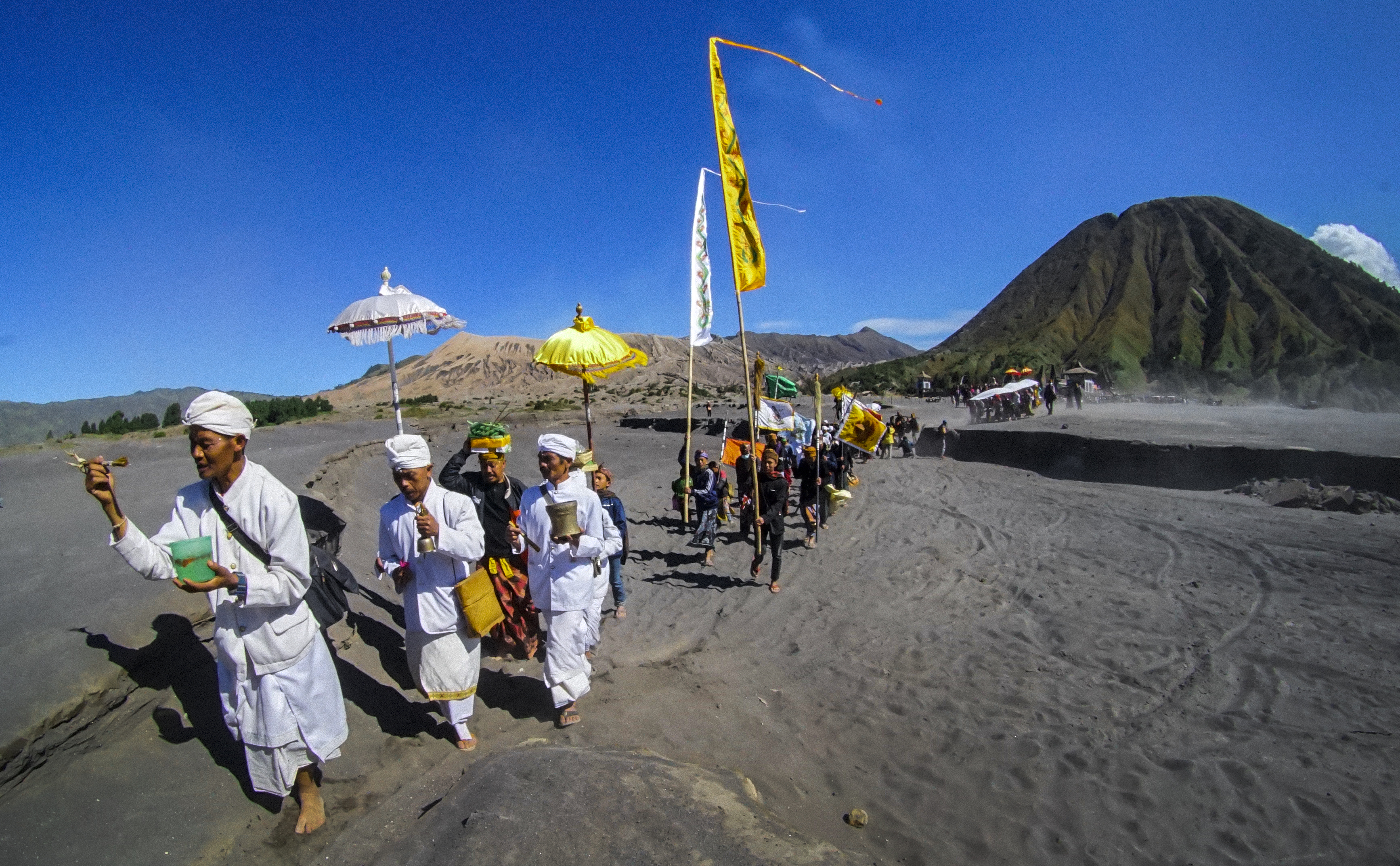 Melasti ceremony practiced by the Tengger people in Mount Bromo